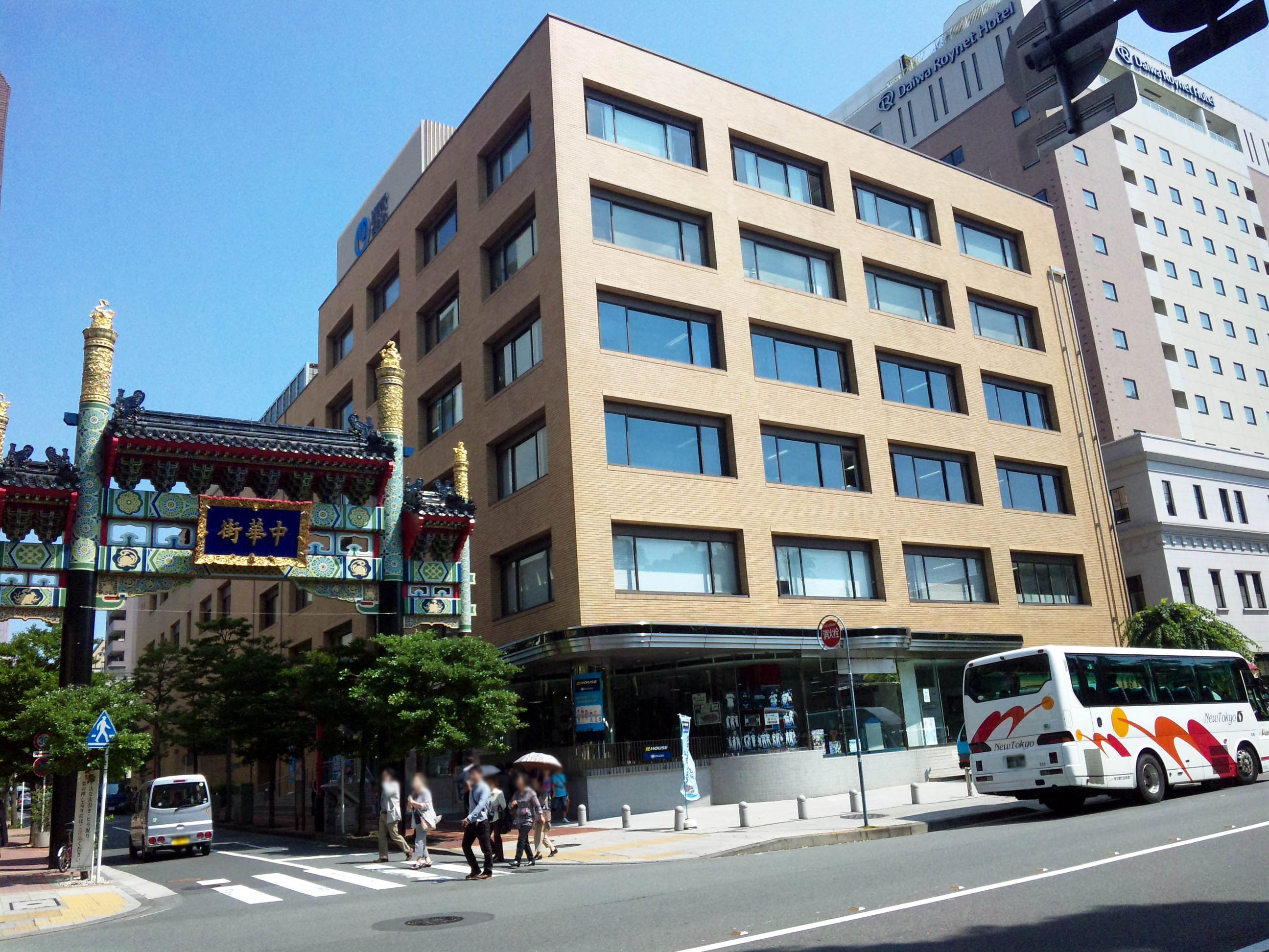 NTT EAST YOKOHAMA MINATO